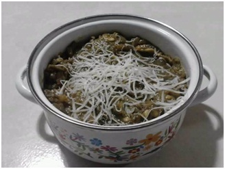 Tradicional guiso de chile pasado con queso tipo chihuahua.